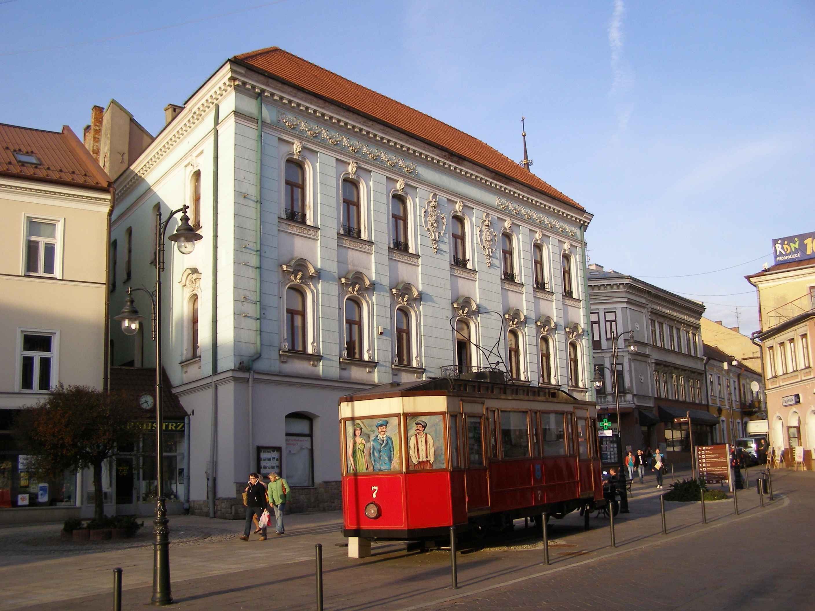 Tarnów - Sobieskiego sq.